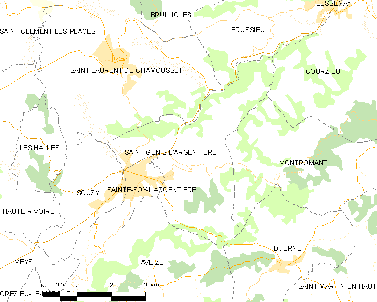 Map of French municipality